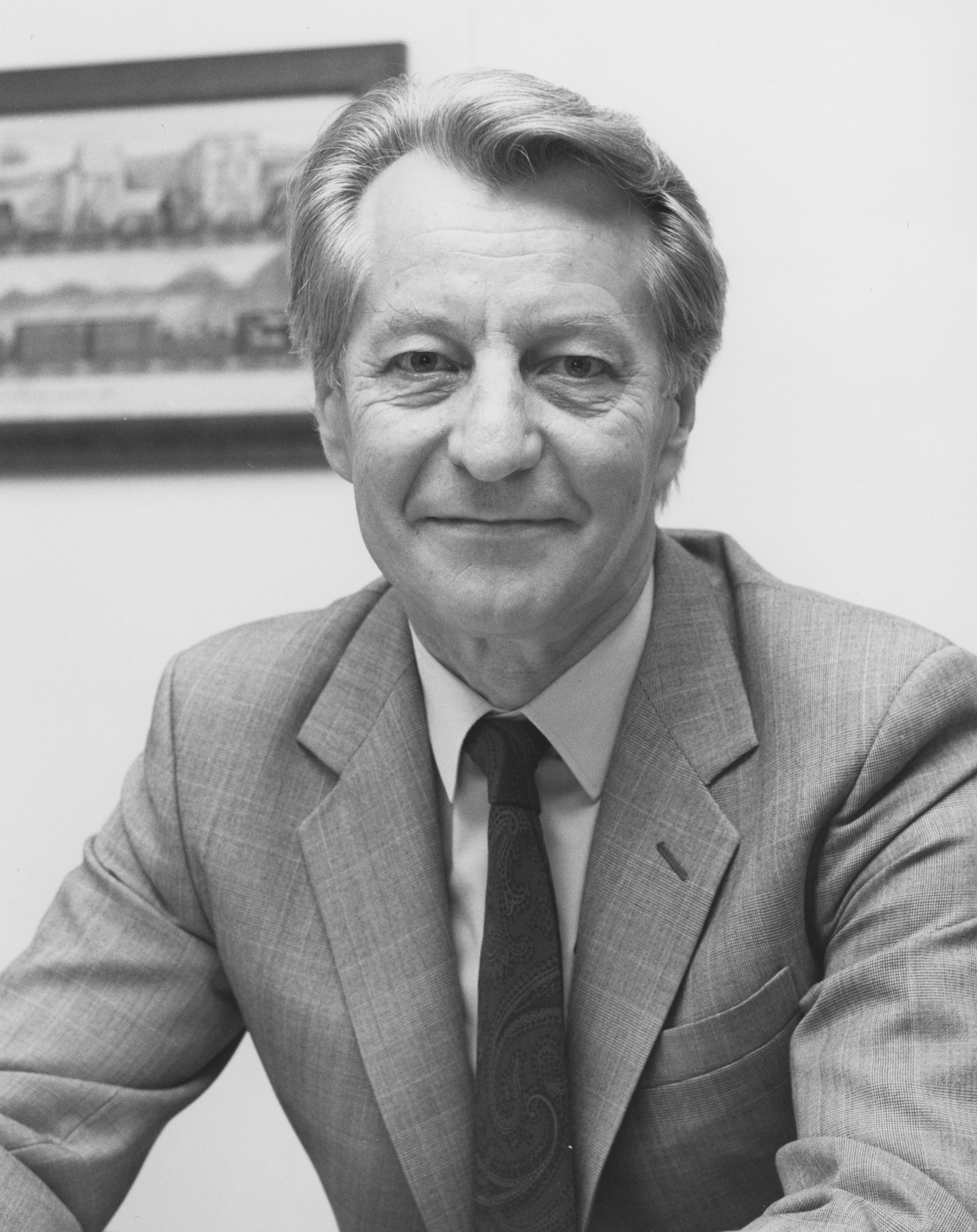 Professor of Social Administration 'Robert Pinker was appointed to the Chair of Social Work Studies in 1978, previoulsy he was a research officer at the school 1959-61, a lecturer at the North-Western Polytechnic, London 1962-64, Head of the Sociology Department, Goldsmith's College, London, 1964-72; Lewisham Professor of Social Administration at Goldsmiths' and Bedford Colleges, 1972-74; and most recently, Professor of Social Studies and head of the Department of Social and Psychological Studies, Chelsea College London.' From 'Professorial Appointments,' LSE Magazine, November 1978, No56, p.7 IMAGELIBRARY/1001 Persistent URL